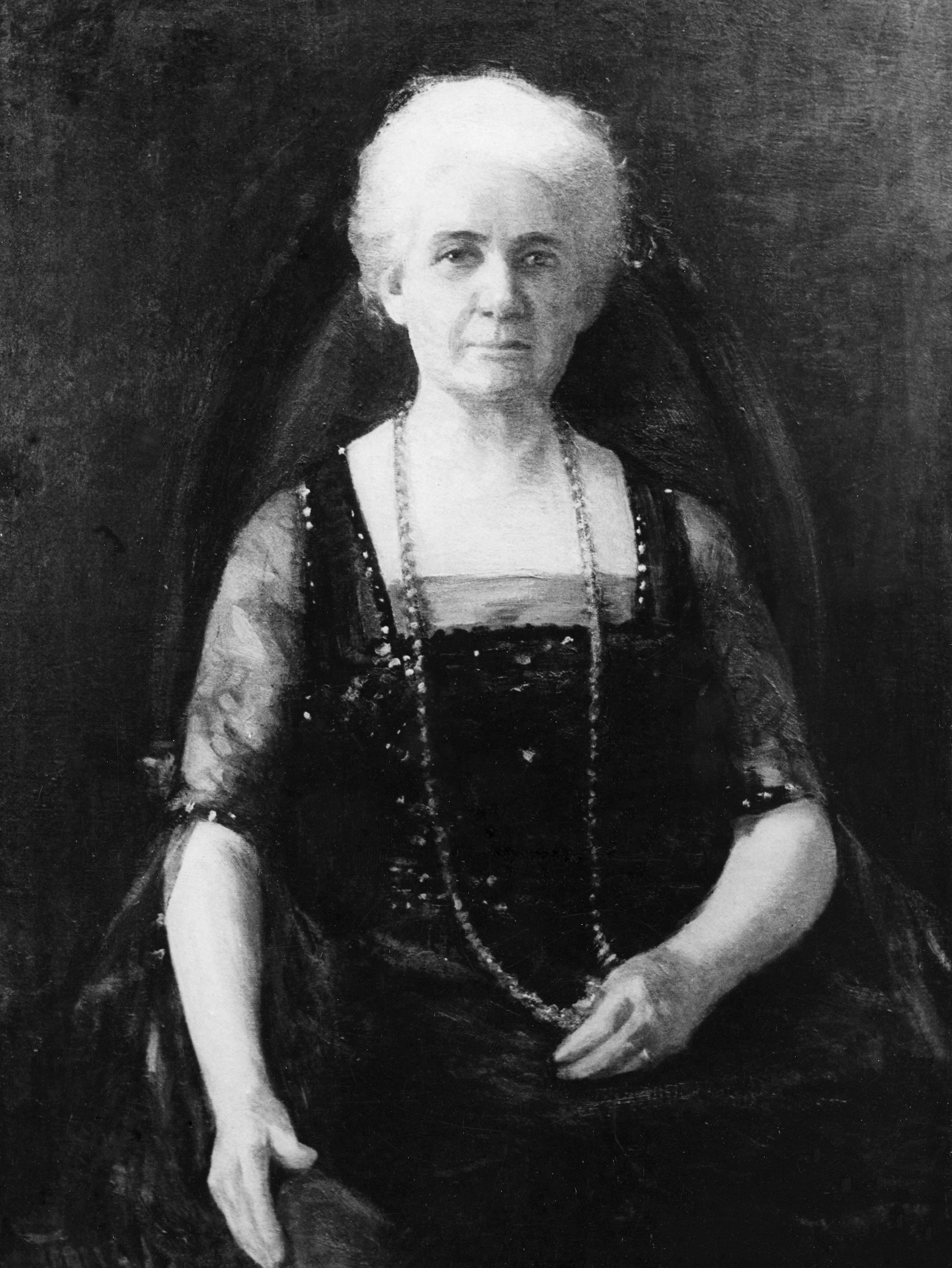 Portrait of Jennie Scott Scheuber by American Impressionist painter Robert Vonnoh.